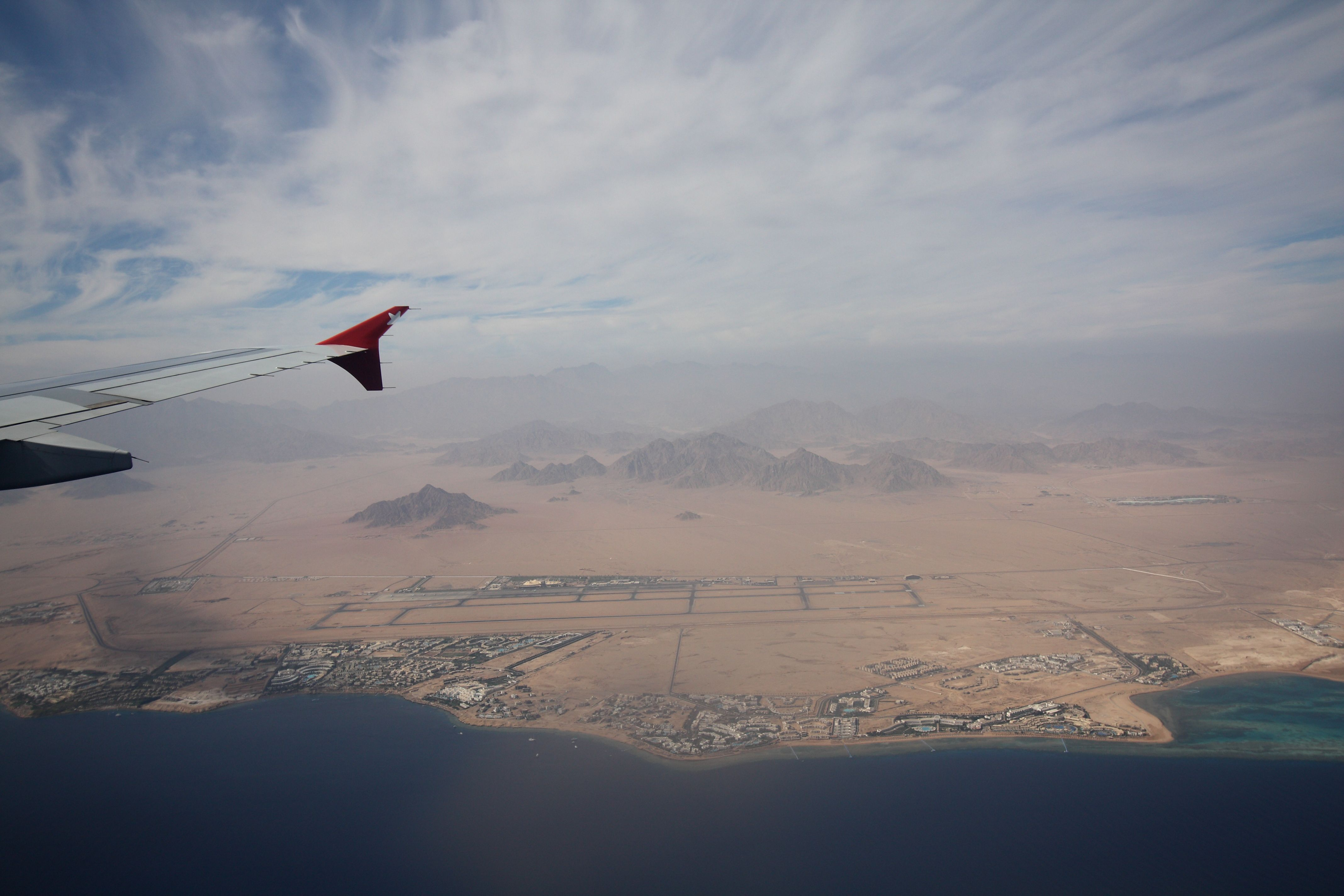 Sharm el-Sheikh International Airport